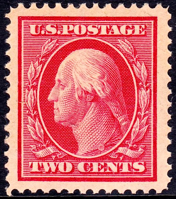 George Washington, 1908 issue, Two-Cents.First Washington-Franklin stamp issued, Nov. 16 1908